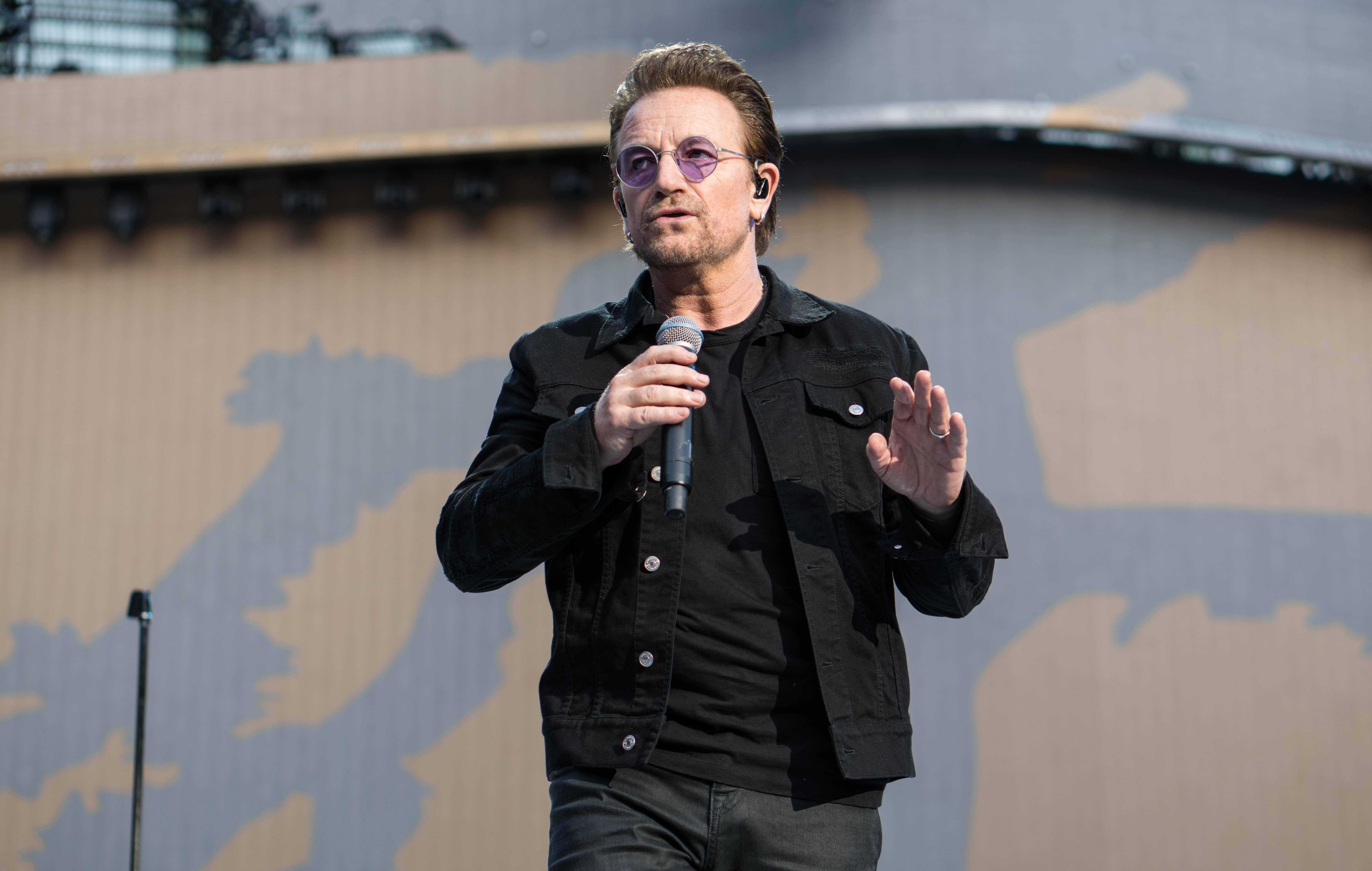 Taken on July 9, 2017 at the U2 concert in Twickenham Stadium in London, England.